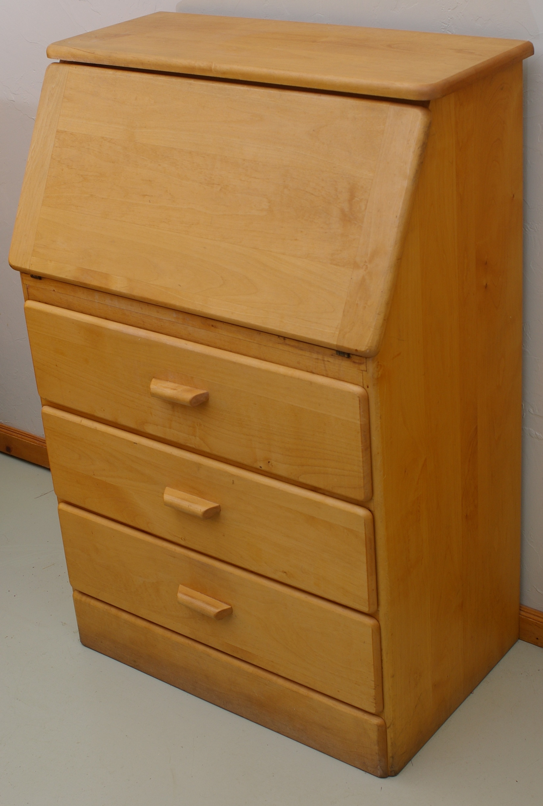 A slant top desk with the top closed. The top has a hinge at the bottom, and folds out to flat.